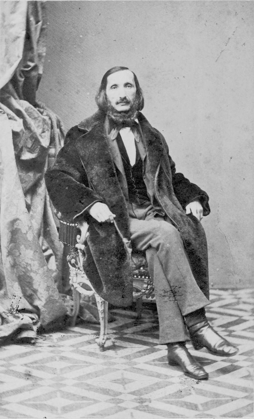 Heinrich Wilelm Ernst (1814-1865), violinist and composter